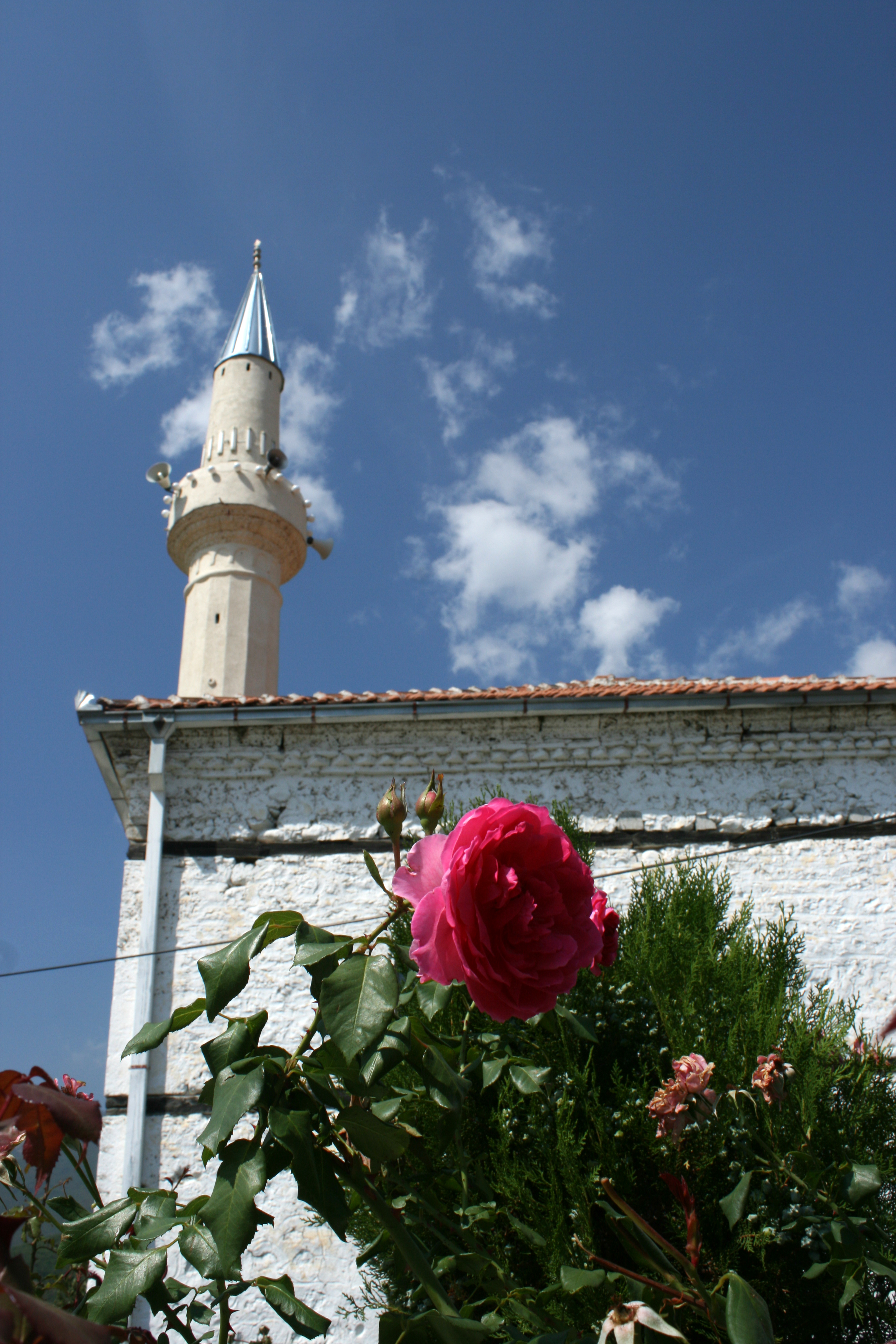 Mosque in Peja, Kosovo